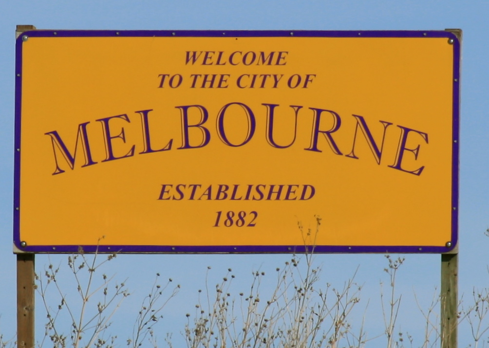 Welcome sign for Melbourne, Iowa, located along Highway 330.